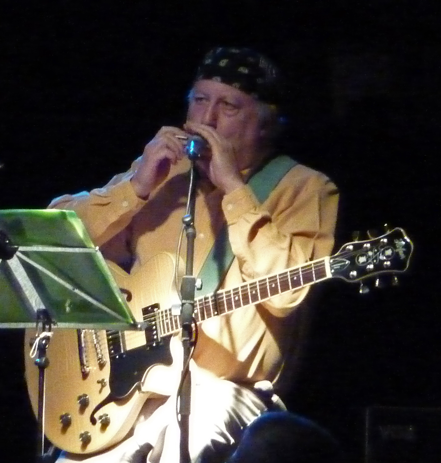 Peter Green of Fleetwood Mac fame playing harp and guitar at the Robin 2 in Bilston